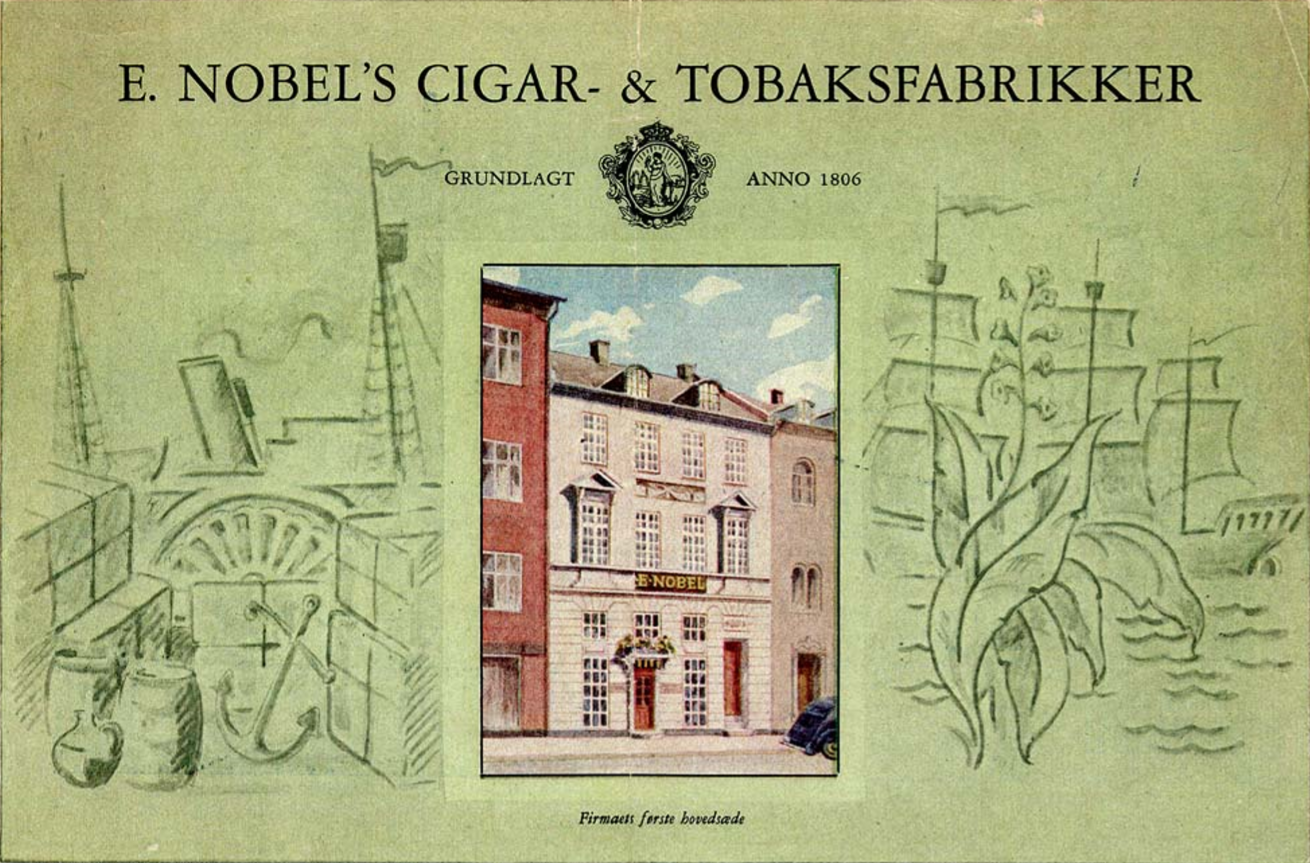 Advertisement for the tobacco company E. Nobel in Copenhagen, Denmark. The building in the middle is its first headquarters at Vestergade 11.